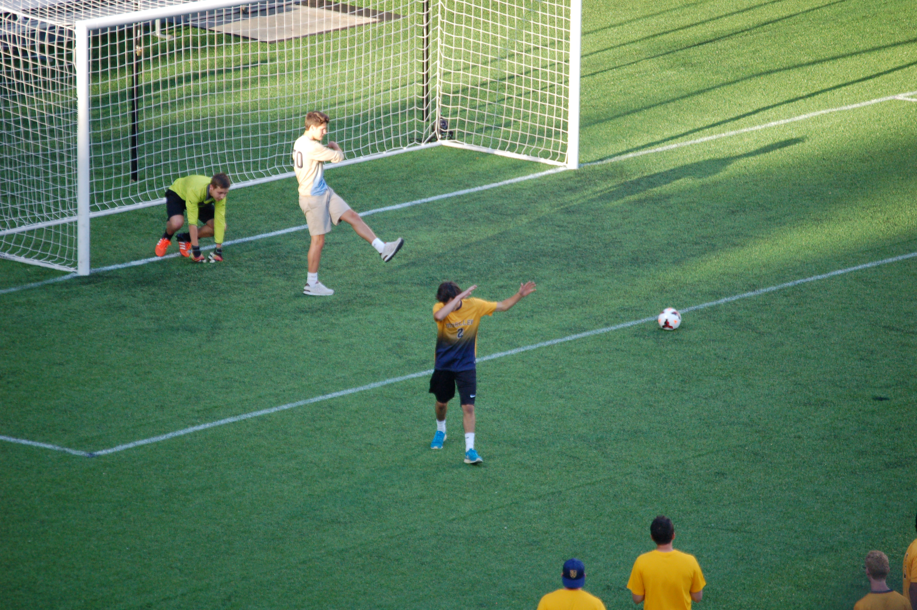 A high school soccer player participating in a halftime event does the dab after scoring a goal. Taken during a match between FC Cincinnati and Toronto FC II at Nippert Stadium in Cincinnati on June 18, 2016.